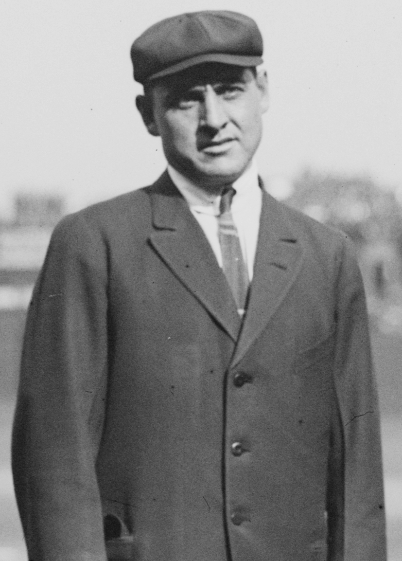 Former MLB umpire George Hildebrand in 1915.